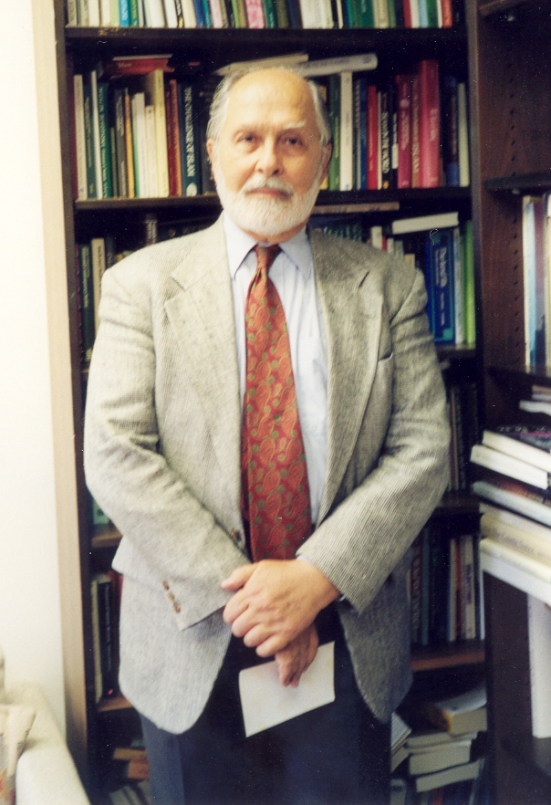 Seyyed Hossein Nasr